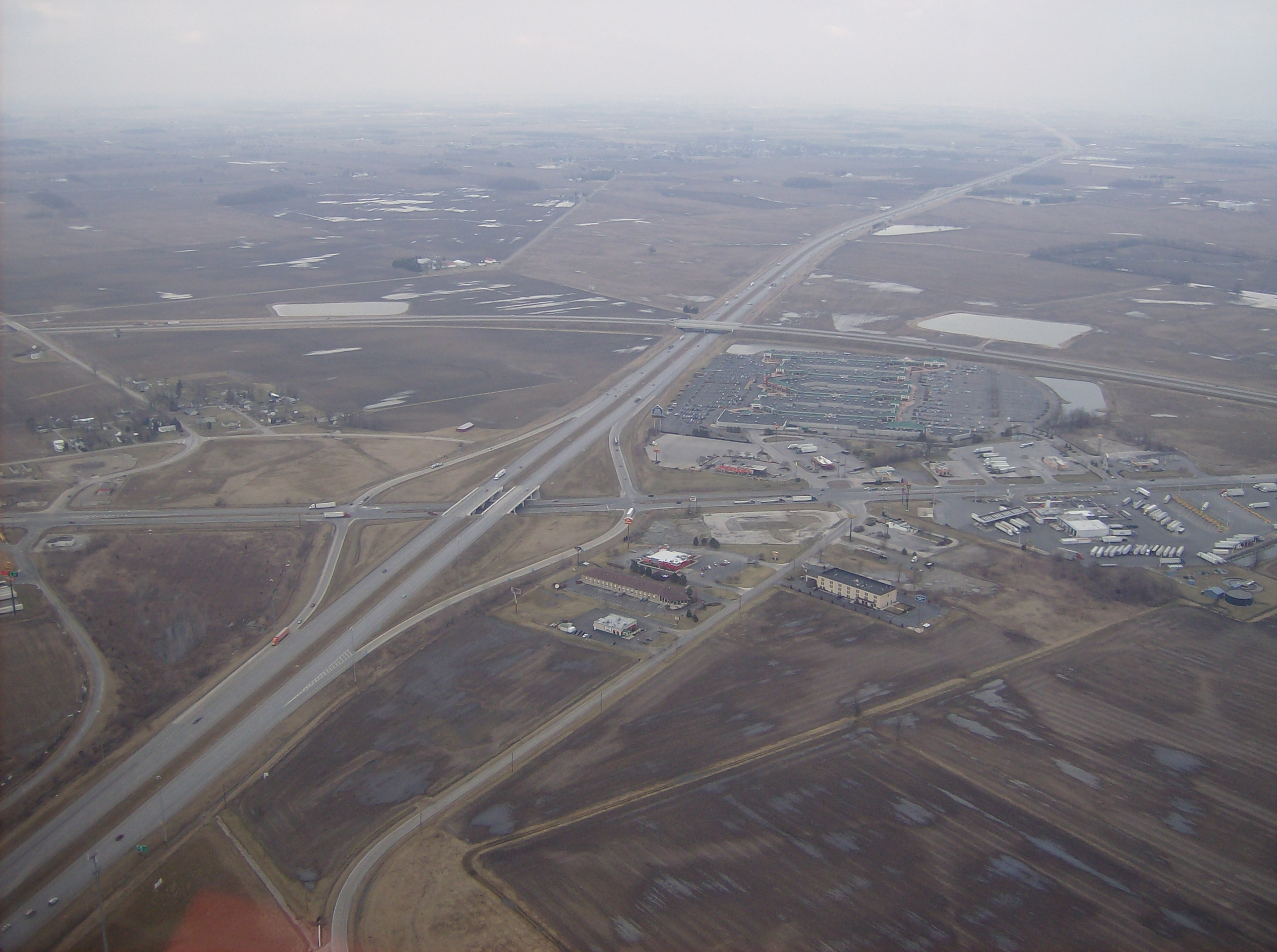 Aerial view of West Lancaster, a community in southern Jefferson Township, Fayette County, Ohio, United States. The village of Octa lies primarily just off the bottom edge of the picture, although its village limits extend along the road that appears from the picture's bottom edge. Picture taken from a Diamond Eclipse light airplane at an altitude of 2,500 feet MSL at an bearing of approximately 5º. The interchange is Interstate 71 over State Route 435, and the divided highway's overpass in the background is U.S. Route 35 passing over the interstate.